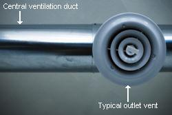 A central ventilation tube and vent. And I am retaining the same license it has there, namely . mbeychok 07:00, 11 August 2006 (UTC)